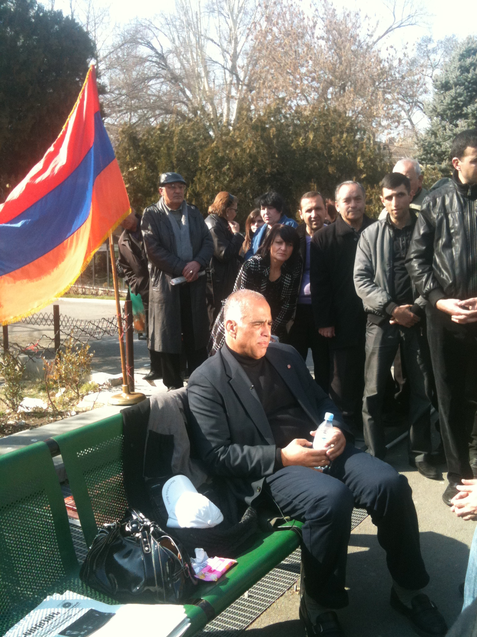 The second day of Armenian politician Raffi Hovannisian's "Fast for Freedom" at Yerevan's Liberty Square.